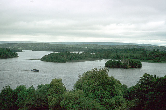 Lough Key from Rockingham Tower The Boyle River links the Shannon to Lough Key and is the last link in the Shannon Navigation. Rockingham Tower is a folly built by the local landowner and gives fine views over the lake. This is the view looking north east to Castle Island.